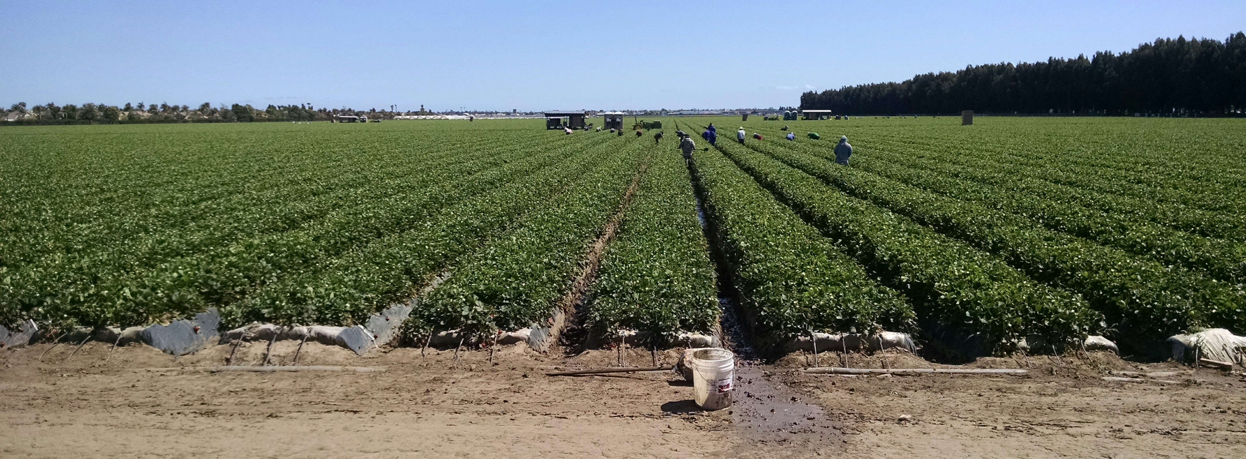 northwestern Oxnard with workers